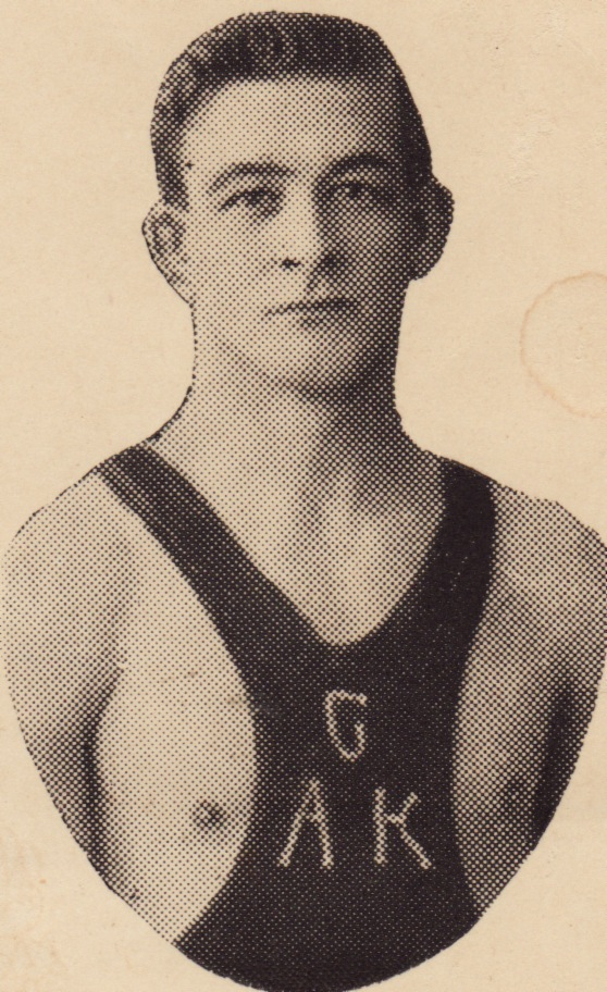 Picture of Erik Malmberg, Swedish wrestler in the 1920s.